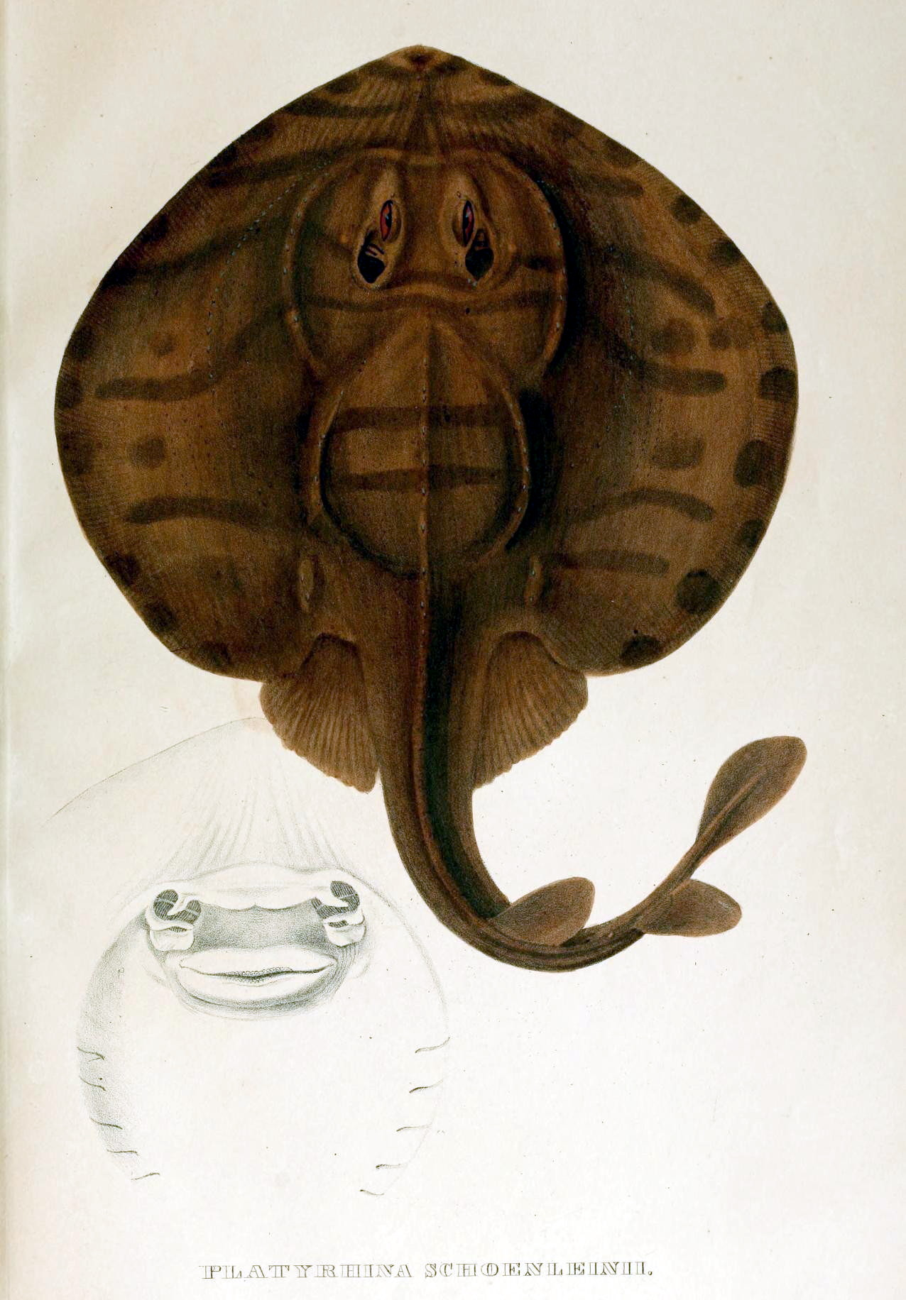 Striped panray Zanobatus schoenleinii (Müller & Henle, 1841)